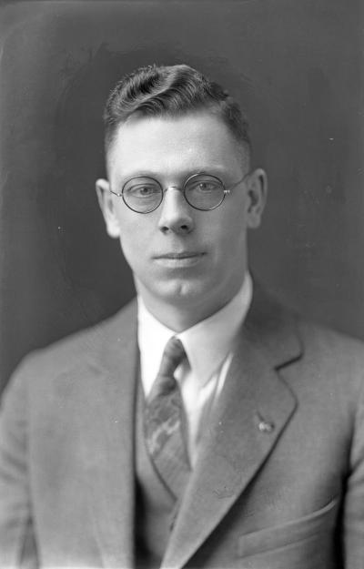 Representative Ralph R. Knapp